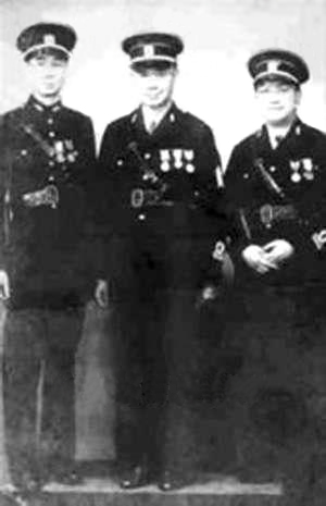 Cheng Ziqing, Xue Gengshen